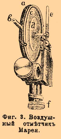 Illustration from Brockhaus and Efron Encyclopedic Dictionary (1890—1907)